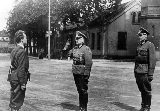 The surrender of Akershus Fortress in Oslo, Norway. The German garnison's commander Major Josef Nichterlein and his aide Captain Hamel handing the fortress over to the Norwegian resistance movement's Terje Rollem in May 1945.